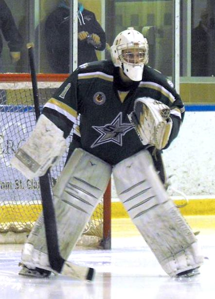 This photo was taken by Devan Mighton during the 2013-14 GOJHL season.